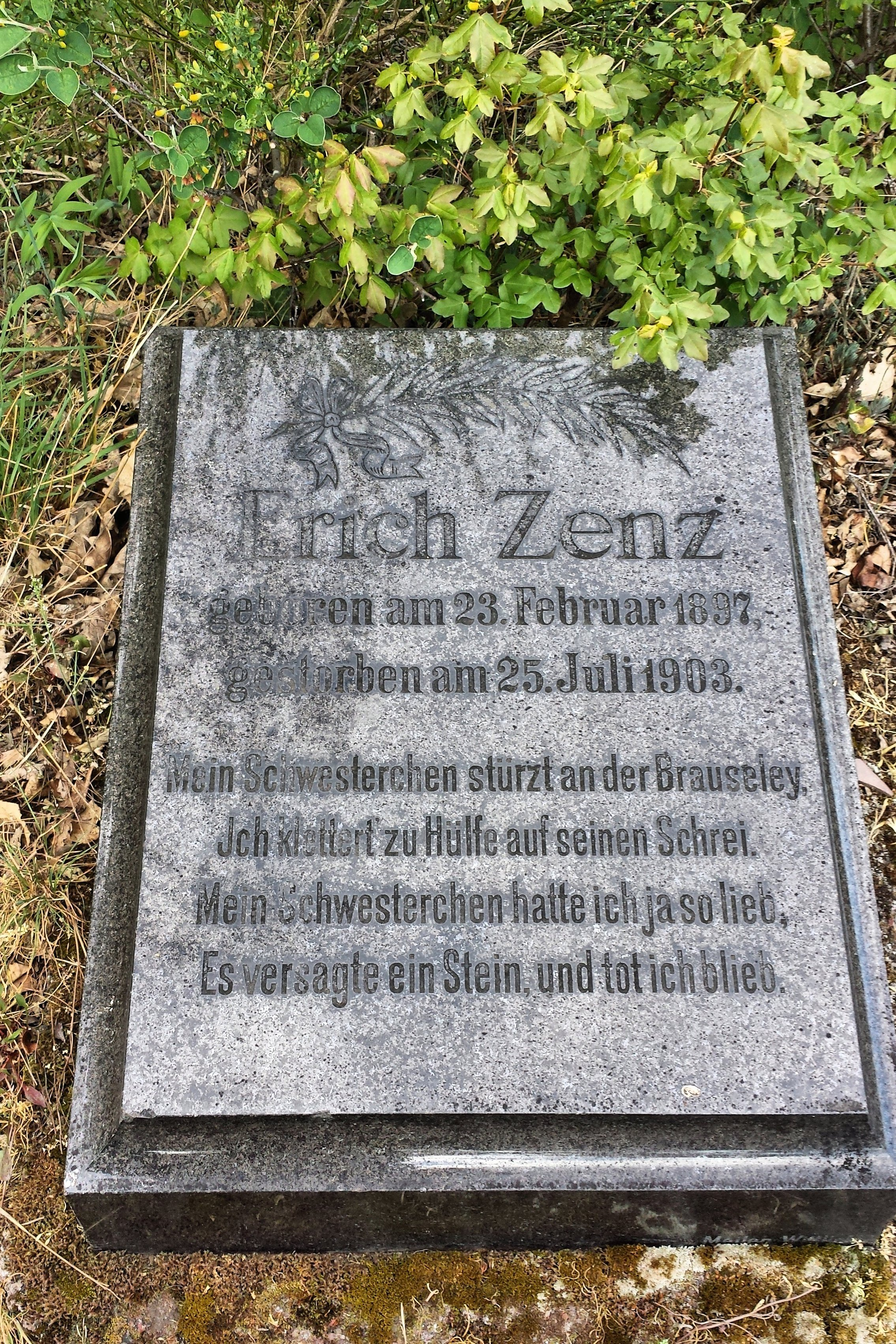 Memorial stone Erich Zenz Cond